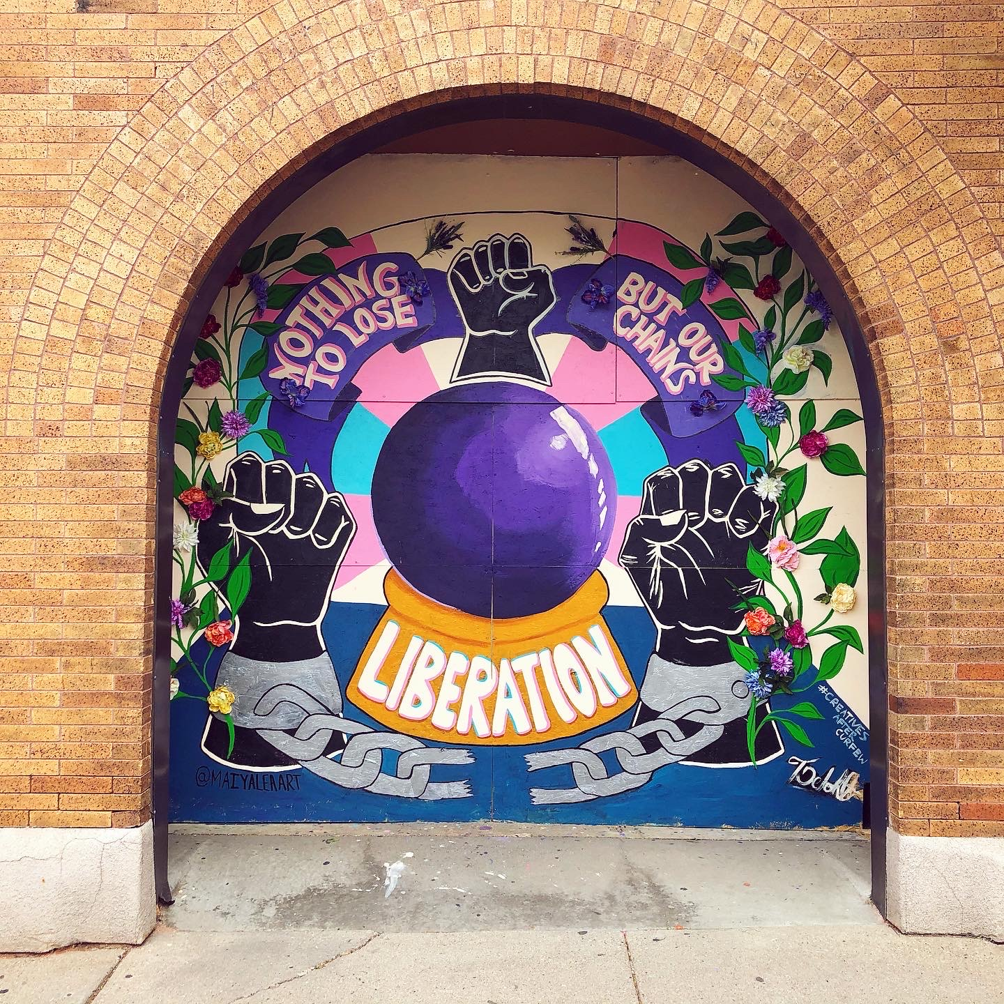 This mural was painted by artists Taylan DeJohnette and Maiya Lea Hartman as a part of the Creatives After Curfew program organized by Leslie Barlow, Studio 400, and Public Functionary in response to the killing of Black Americans by police officers. The mural depicts the phrase "Nothing to lose - but our chains - liberation" and Black fists breaking through chains.